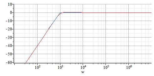 Bode plot (amplitude) of a second order high pass system